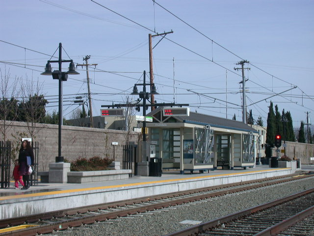 Fruitdale station on the Santa Clara VTA light rail system.